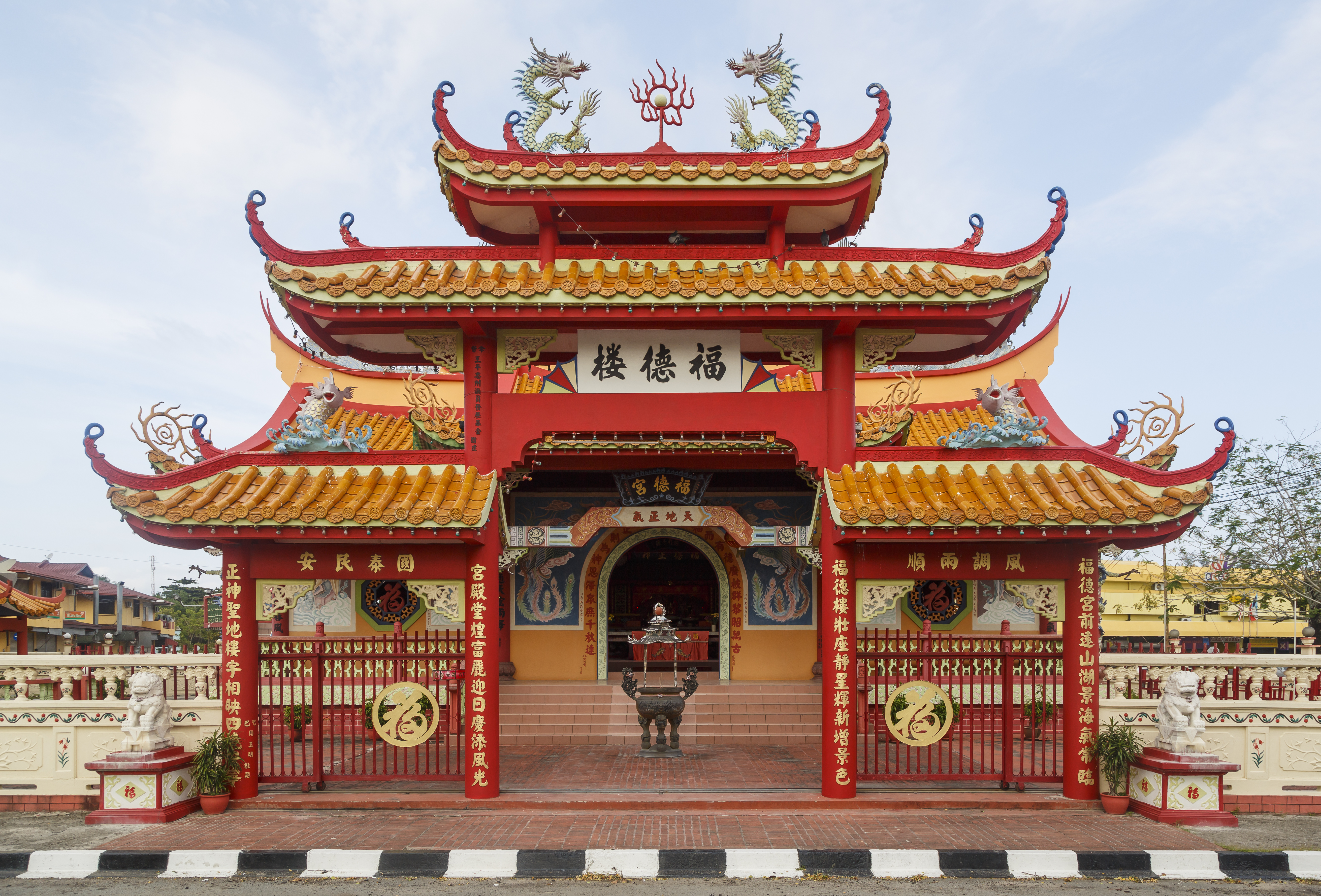 Kudat, Sabah, Malaysia: Fuk Tek Kung Temple, one of the few taoism temples in Sabah. It was built in the early 1970's by the nearby Hokkien Association.